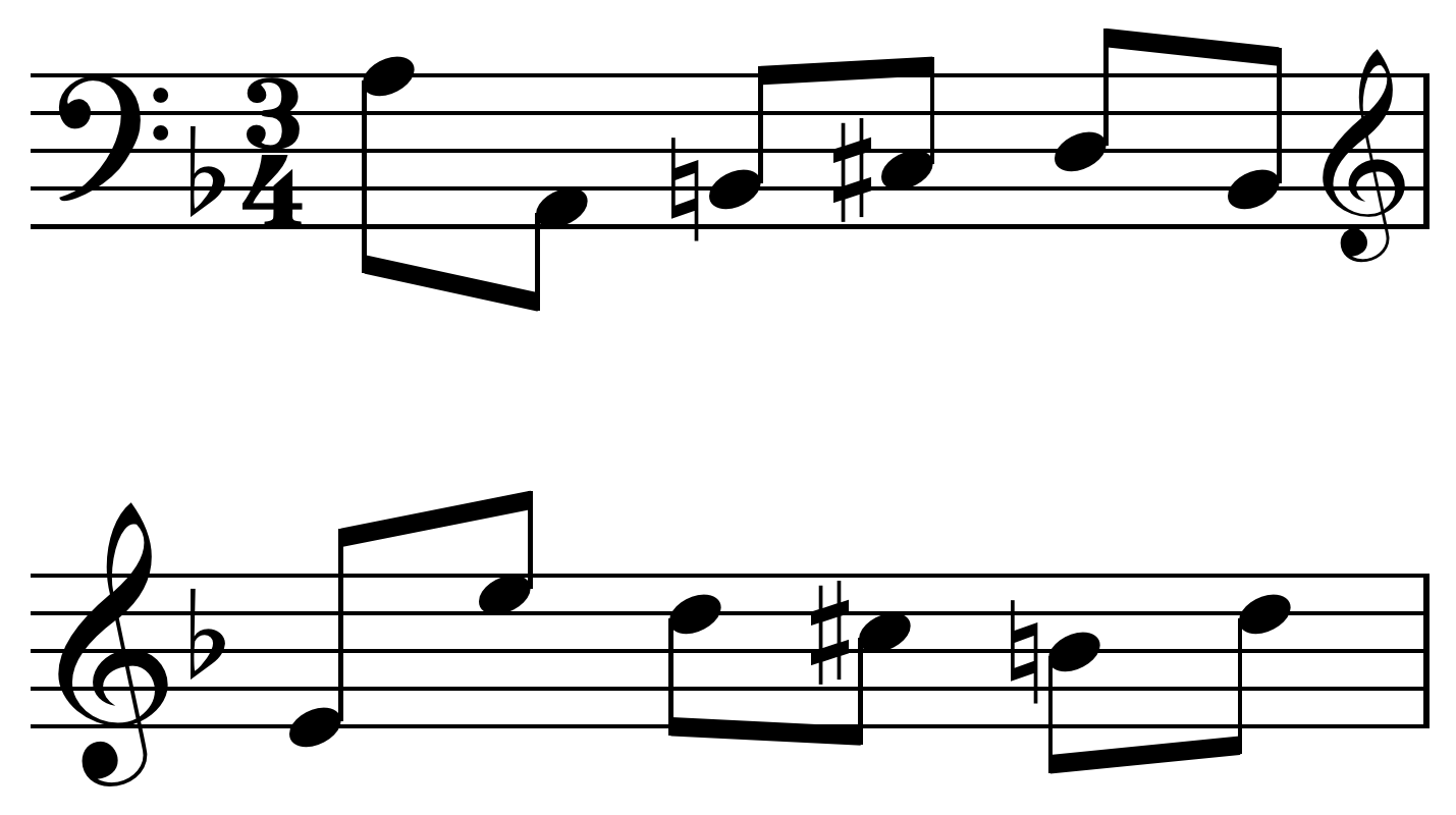 Inversion example from Bach's The Well-Tempered Clavier.